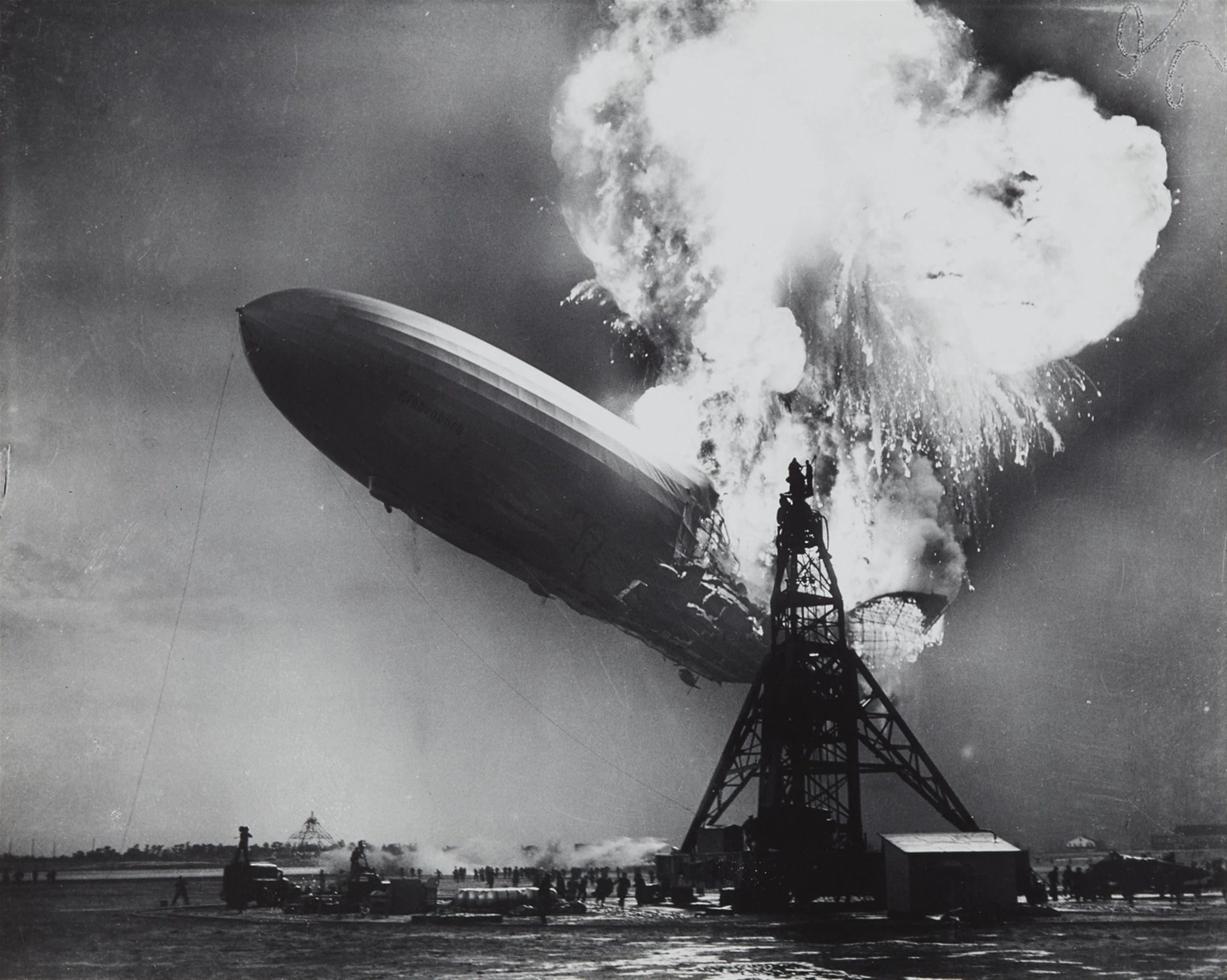 Zeppelin the Hindenburg on fire at the mooring mast of Lakehurst (United States of America) 6 May 1937. Ballast water is thrown down. Exit airships.